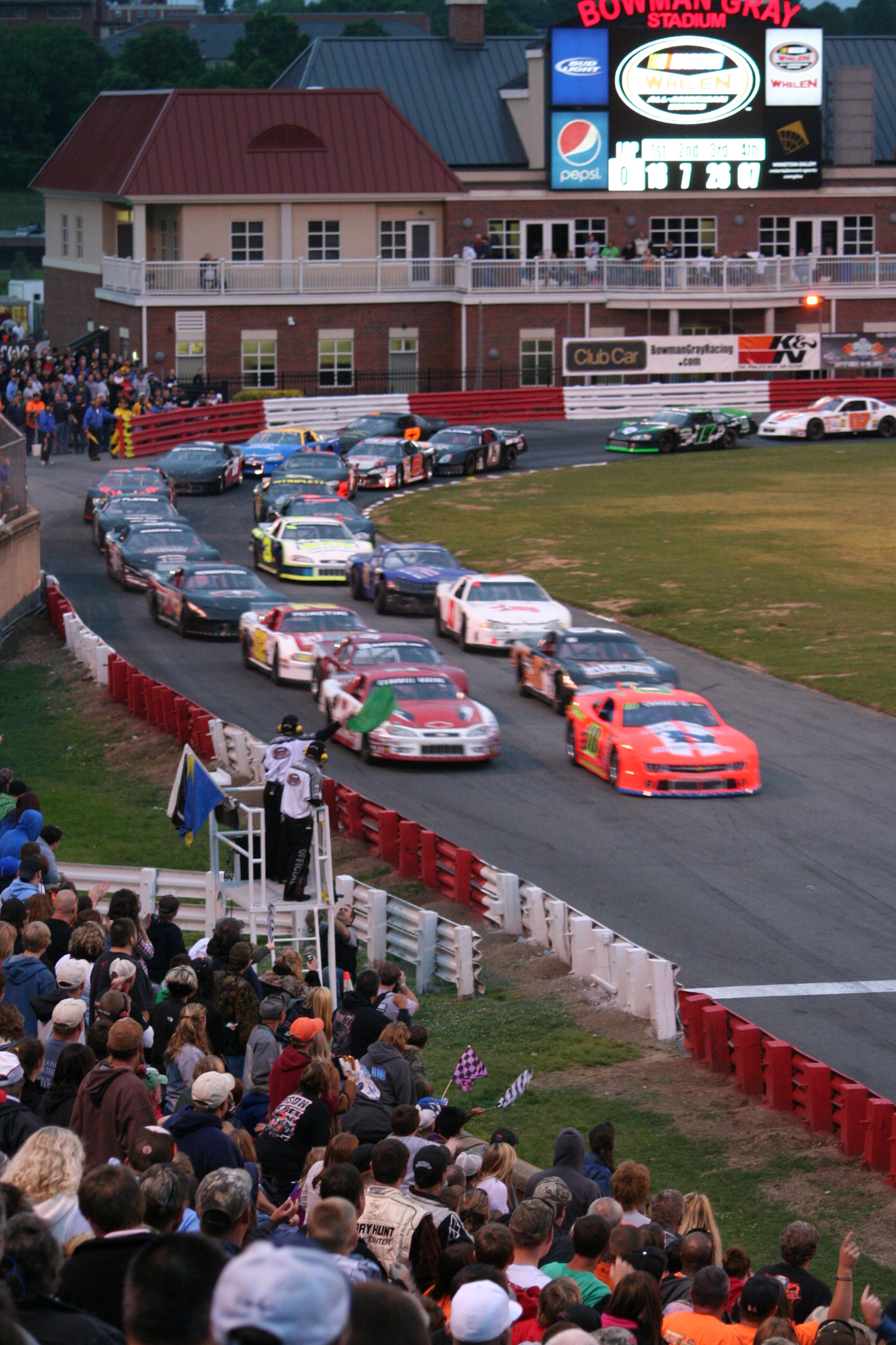 Bowman Gray Stadium - Opening Race Green Flag